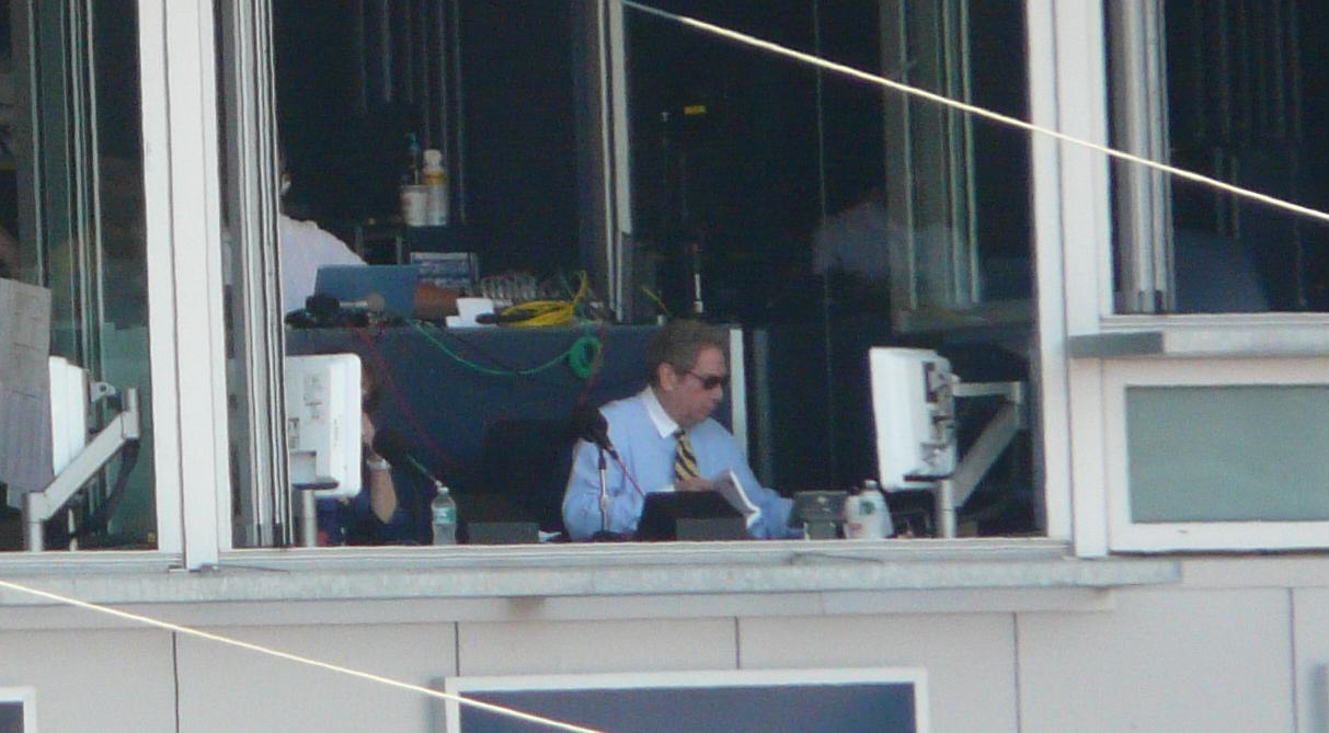 John Sterling and Suzyn Waldman. (Sterling is the one in blue)